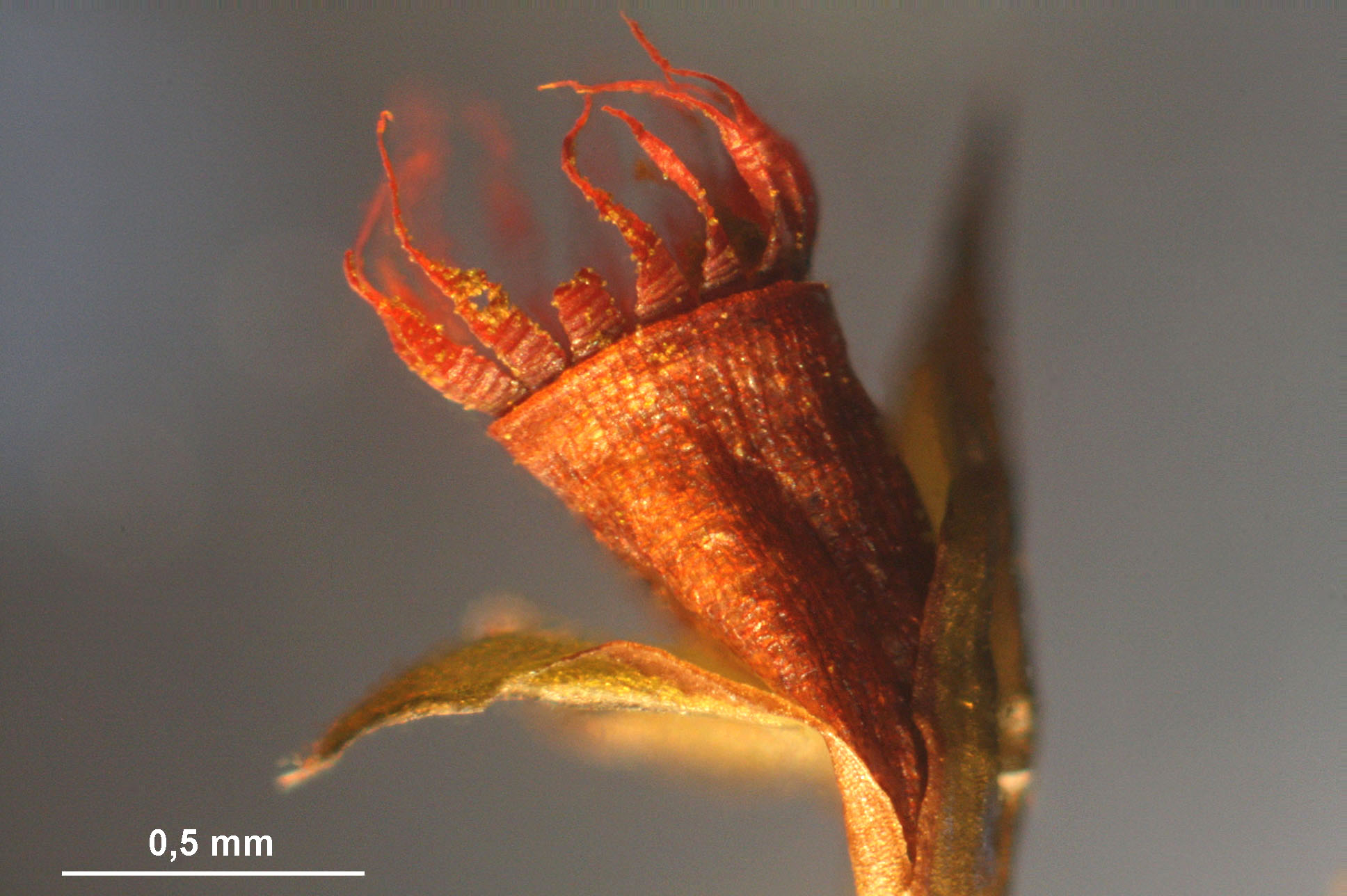 Schistidium trichodon